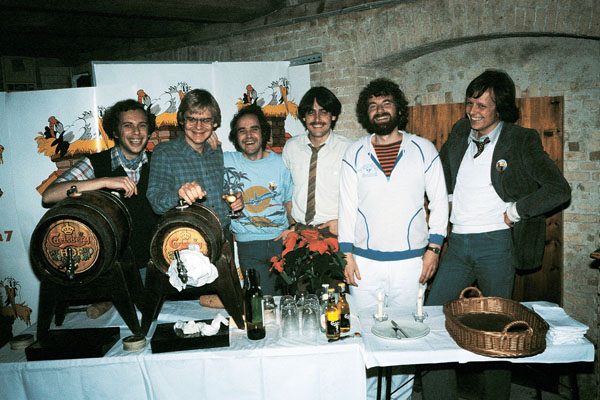 The Danish poprock group Shu-bi-dua in 1980 at the reception of the album "Shubidua-7". from left to right: Bosse Hall Christensen, Jens Tage Nielsen, Claus Asmussen, Kim Daugaard, Michael Bundesen and Michael Hardinger.